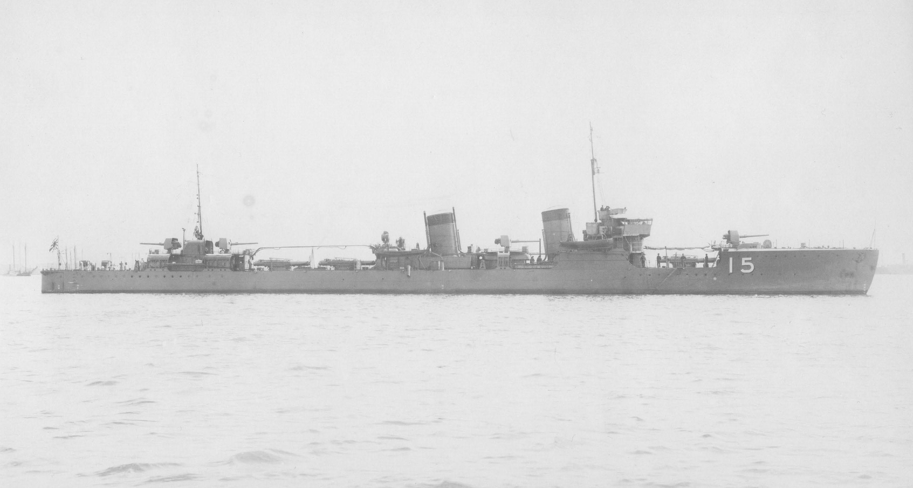 Imperial Japanese Navy destroyer Asanagi.